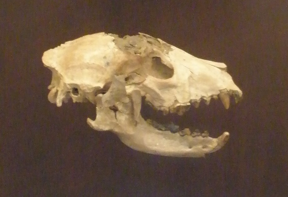 fossil of Tormarctus, an extinct carnivoran